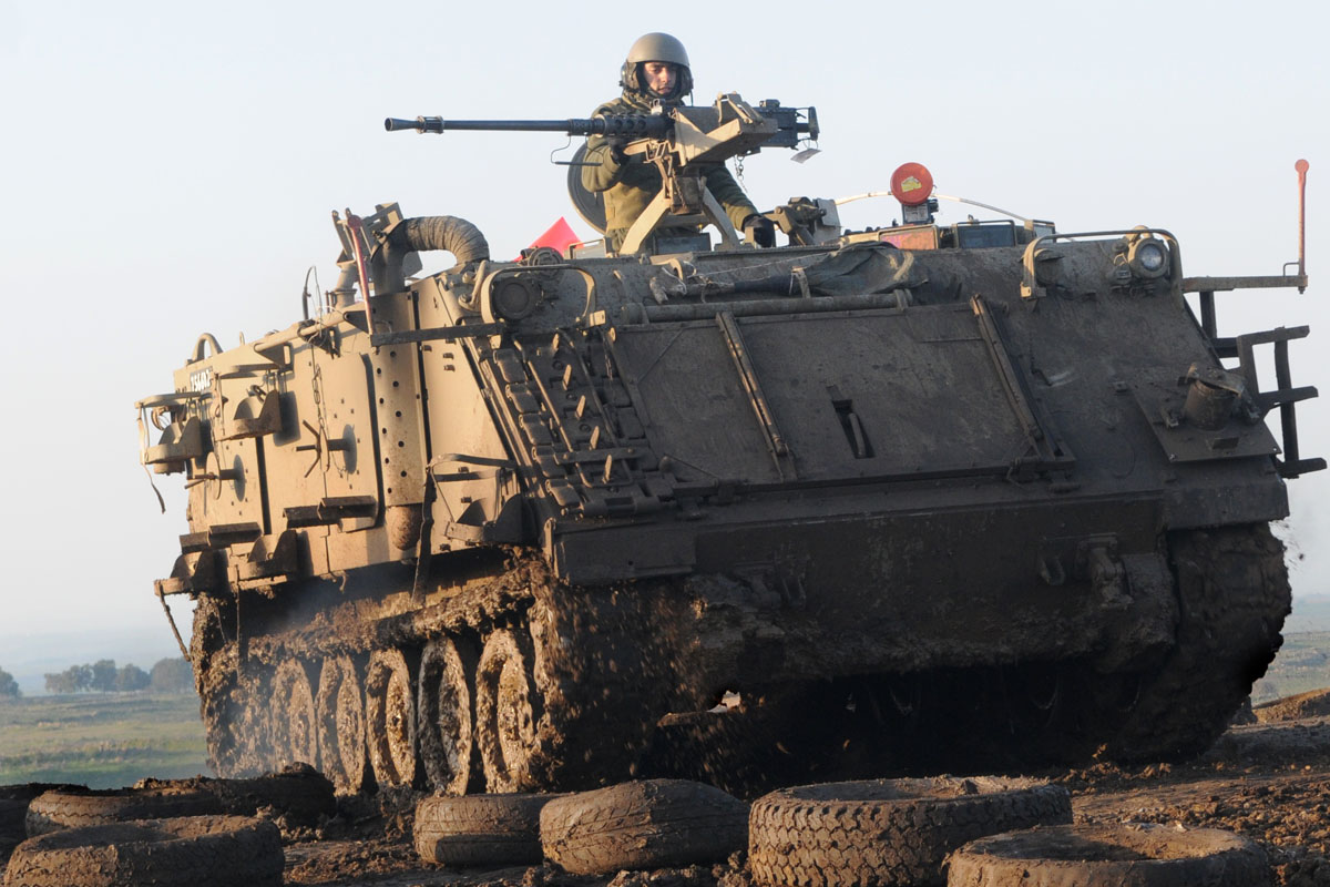 February 28, 2012 Last month, the IDF Artillery Corps' cadets conducted a competence day, testing their abilities by competing one another. On that day, the soldiers competed in many ways- inserting the shells into the canons the fatest, aiming the canon the fastest, and last- firing the shells as quickly and accurately as possible. The Israel Defense Forces Facebook • blog • Twitter